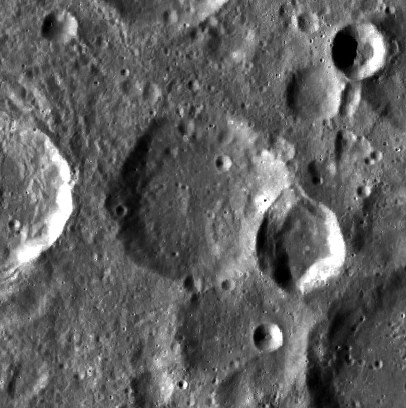 Ten Bruggencate lunar crater - LROC image.